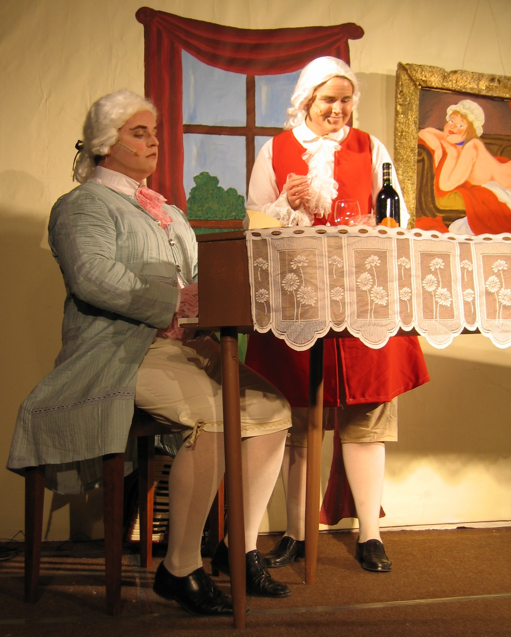 A scene from the first act of Mozart eller Det går lika bra med Salieri, a Lundian spex performed by Helsingkronaspexet in Lund. The characters are Mozart (left) and Haydn.